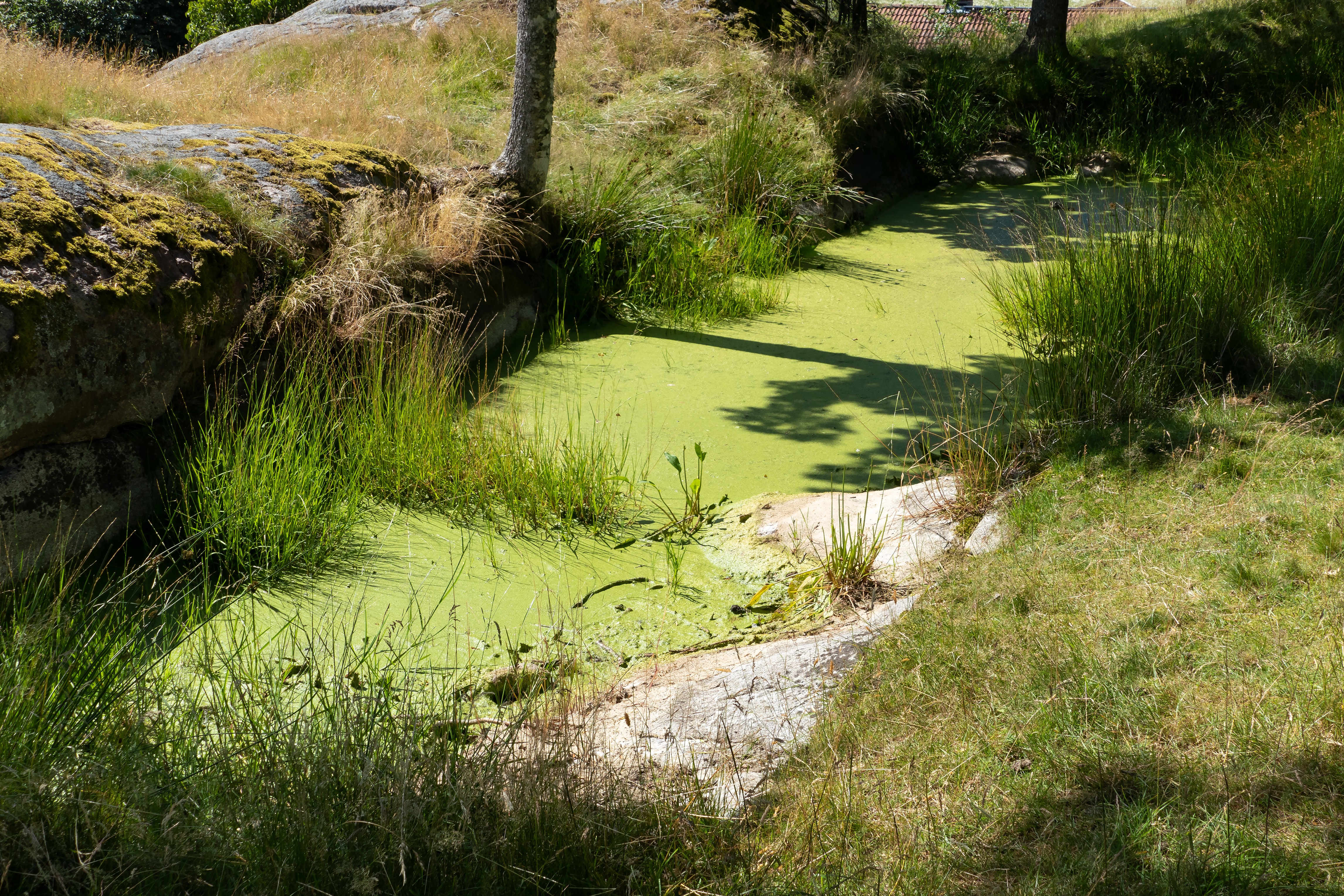 The old water cistern at Röe castle right by Röe gård in Röe, Lysekil Municipality, Sweden. The water in the cistern is covered with duckweed (Lemna minor).